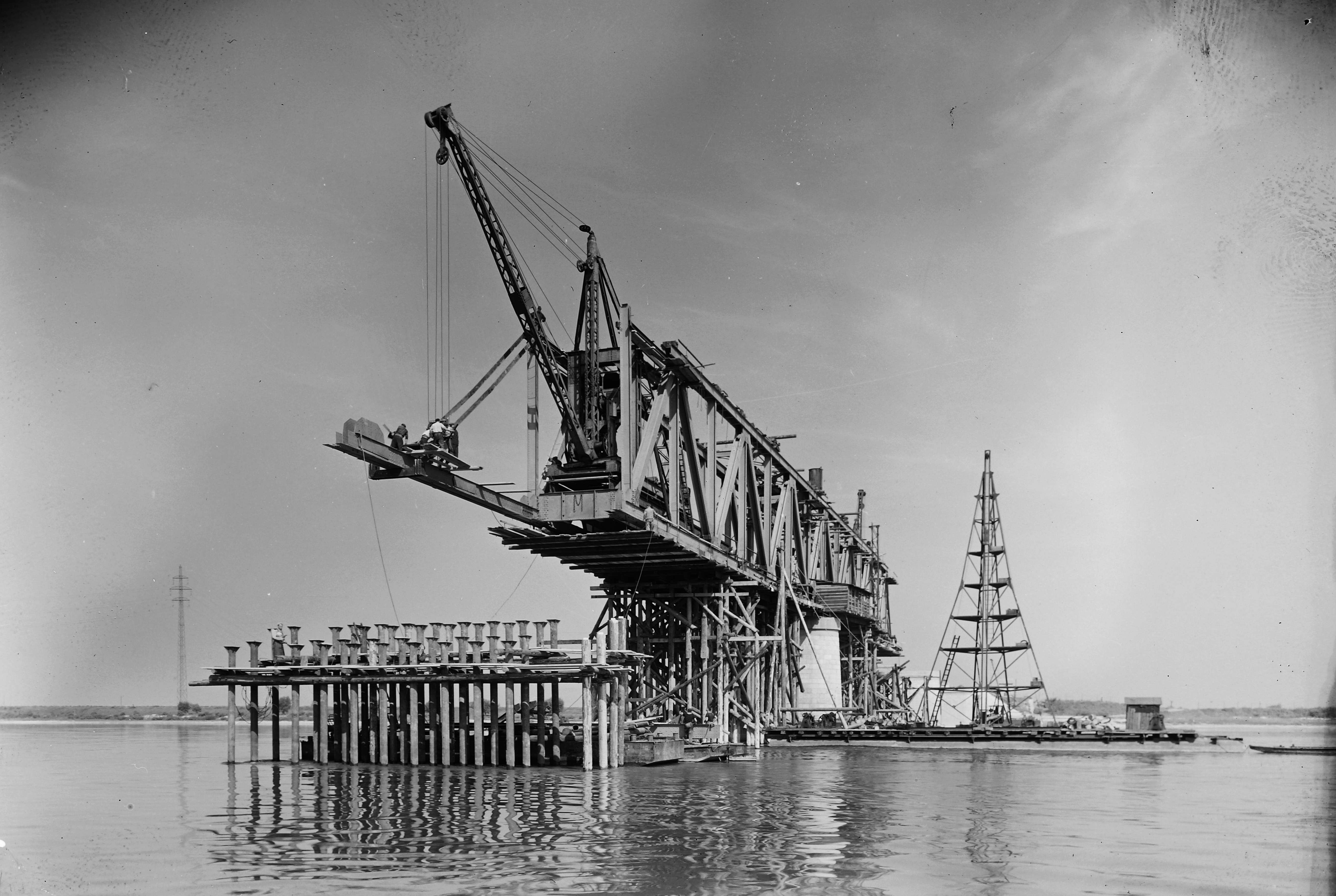 Re-building of the railroad bridge connecting Slovakia and Hungary. Komarom, 1954.